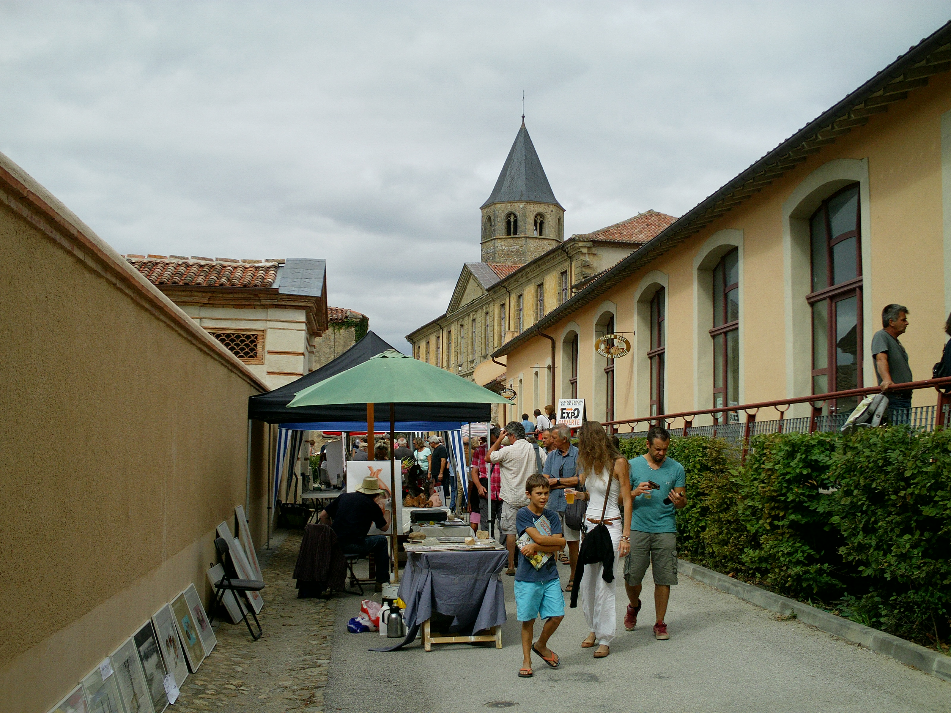 Artistic activities in 81540 Sorèze (FRANCE) rue Saint Martin